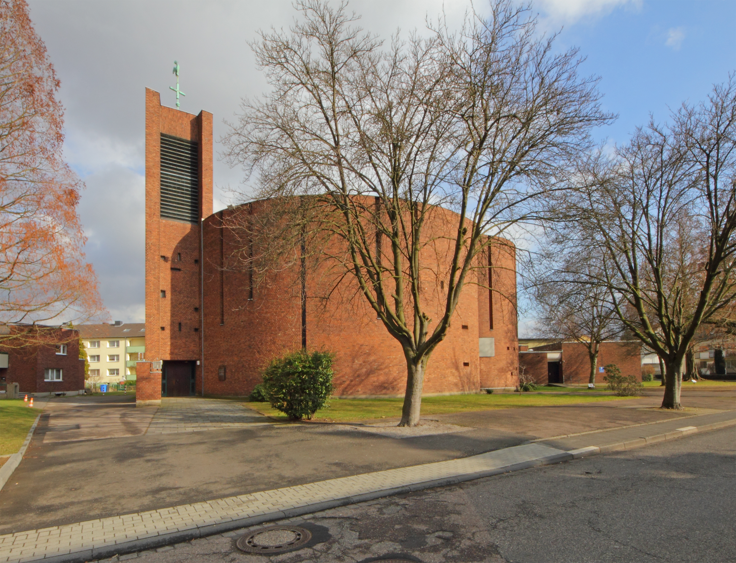 Catholic church St. Thomas More in Leverkusen-Schlebusch